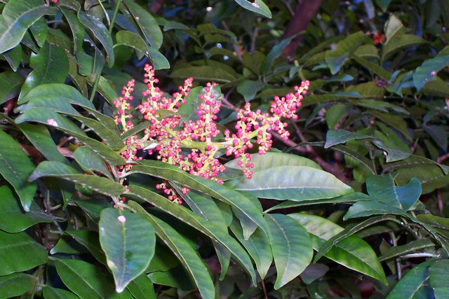 Rhodosphaera rhodanthema panicle, RBG Sydney